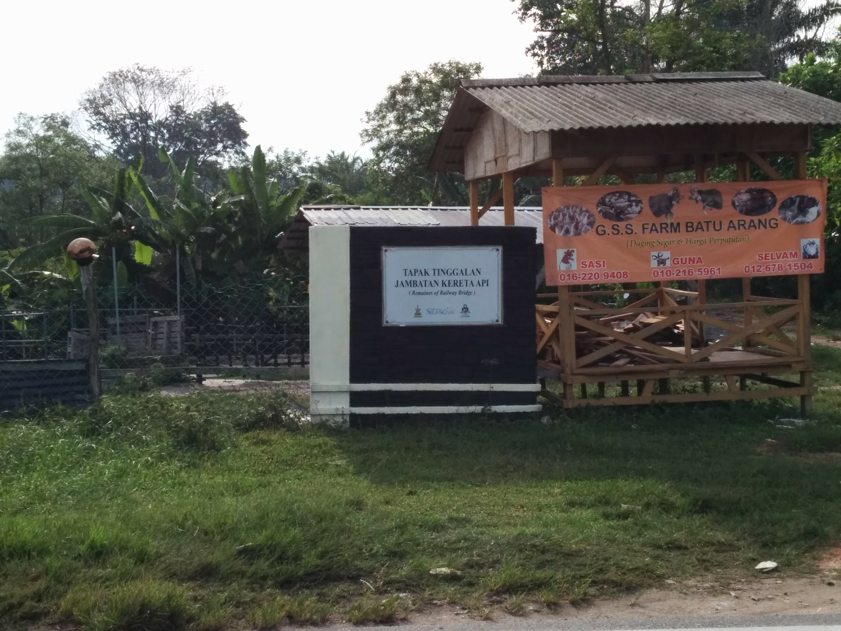 A plaque was placed to mark the remnants of Batu Arang railway bridge, which was dismantled in 1971.